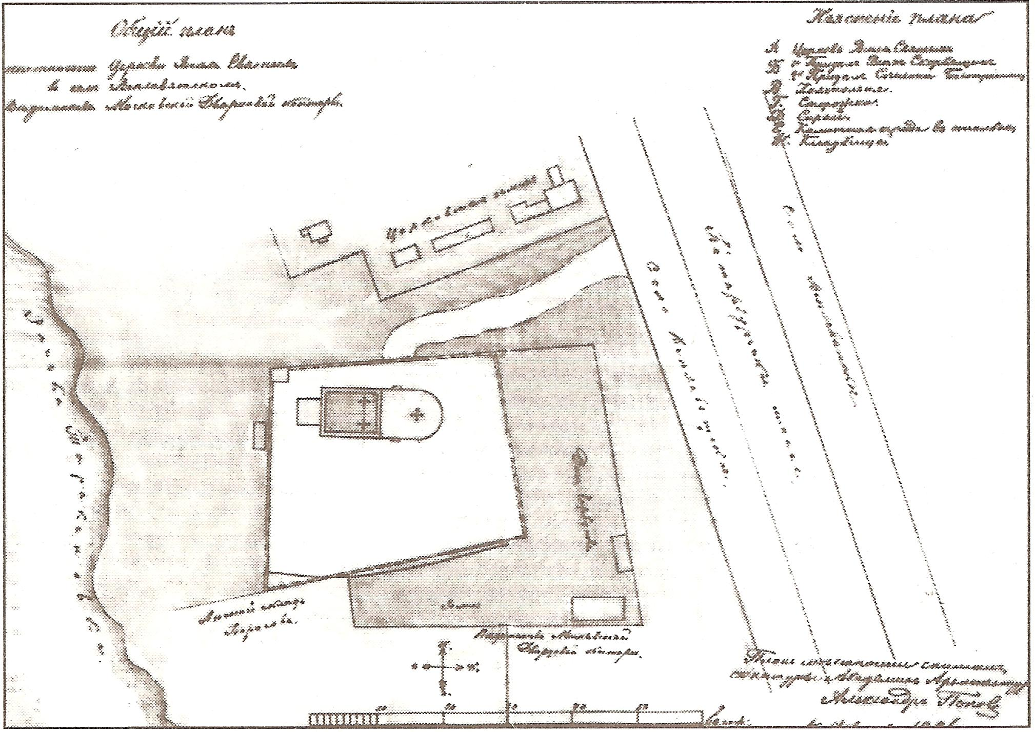 All Saints Church at Sokol at the map.